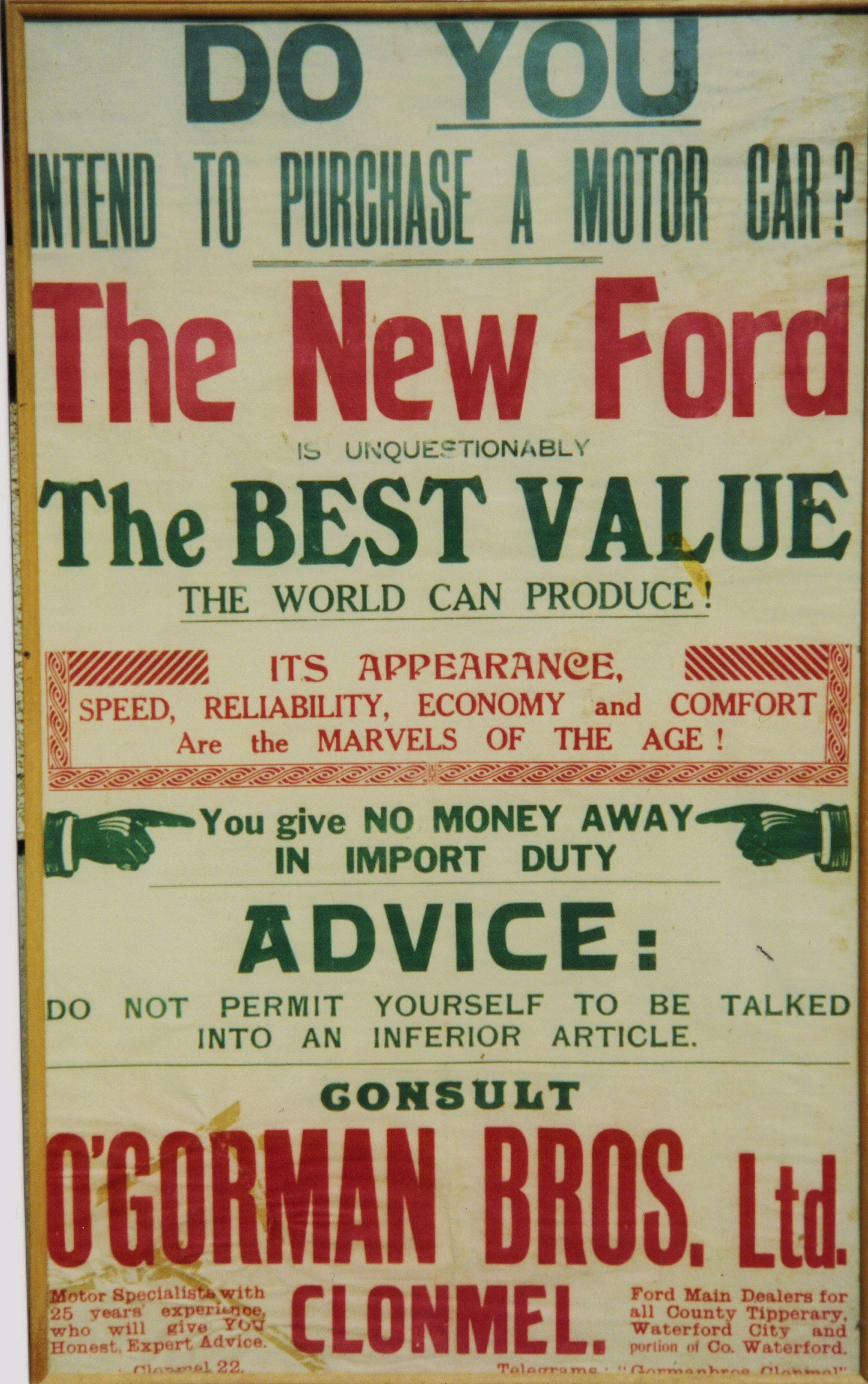 O'Gorman Brothers Poster for Ford (Approx 3 feet by 1.5 feet)